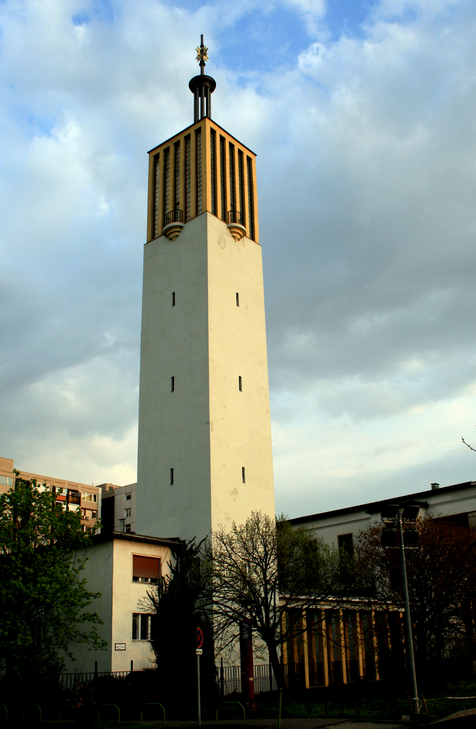 Modern church in Budapest, Hungary